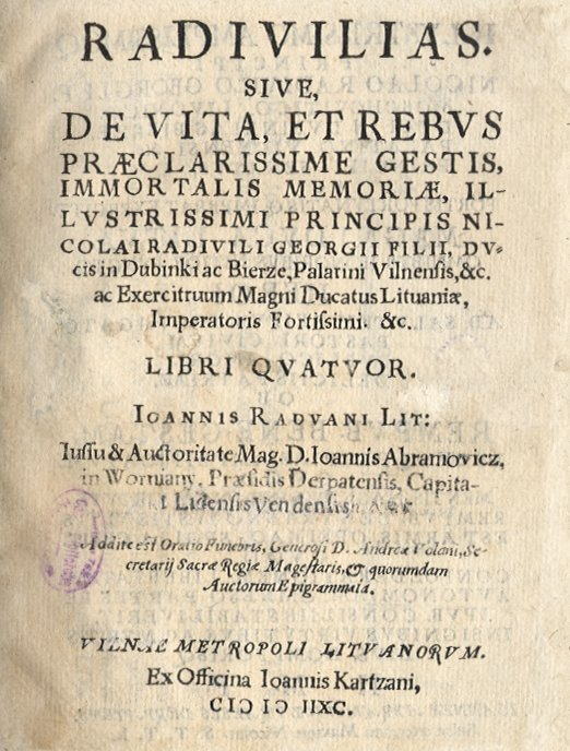 The title page of the poem by Ioannes Radvanus (pl. Jan Radwan) "Radivilias". Vilnia, 1592.